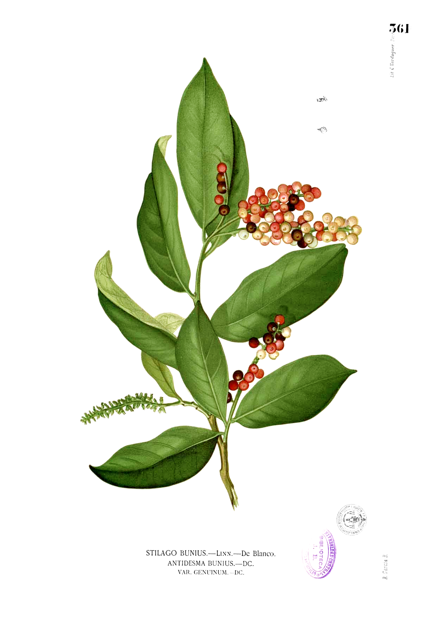 Plate from book